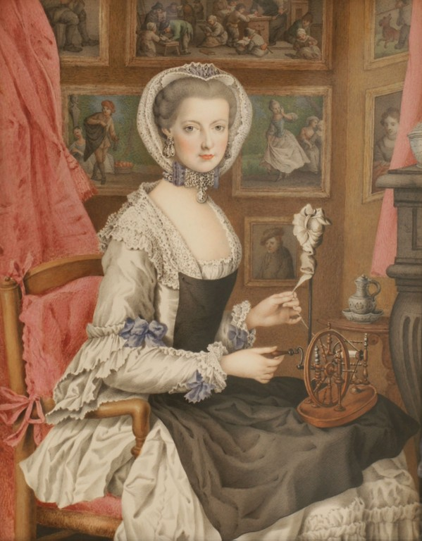 Archduchess Marie Christine of Austria (1742-1798), daughter of Franz I. Stephan of Lorraine, Holy Roman Emperor, and Maria Theresia, Empress of Austria and Hungary, spouse of Albert, Prince of Saxony (1738-1822)